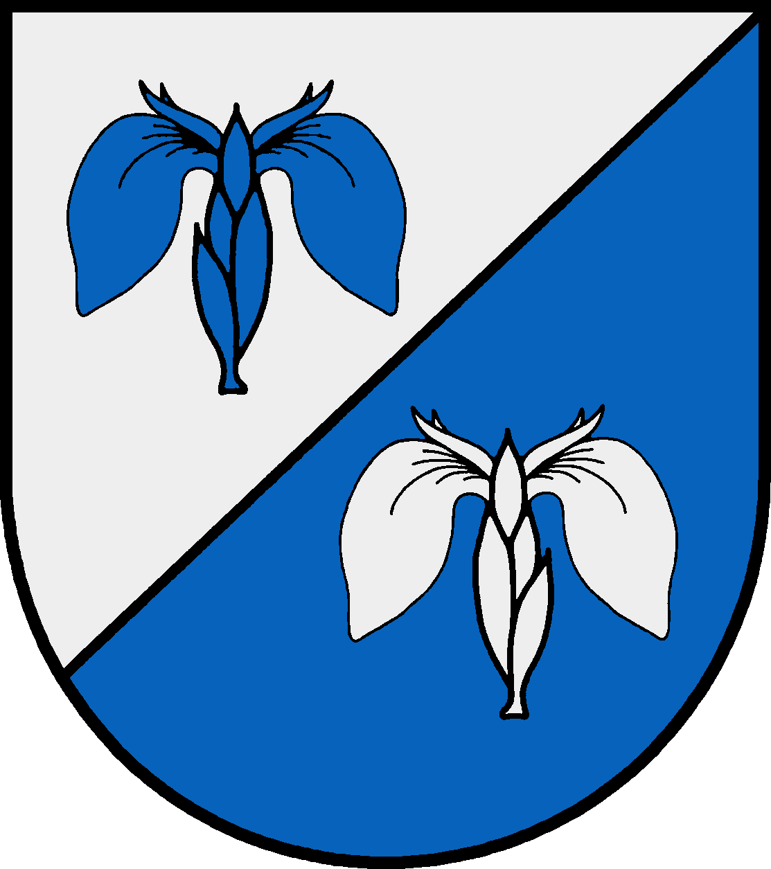 Coat of arms of the municipality Tröndel in Schleswig-Holstein, Germany.